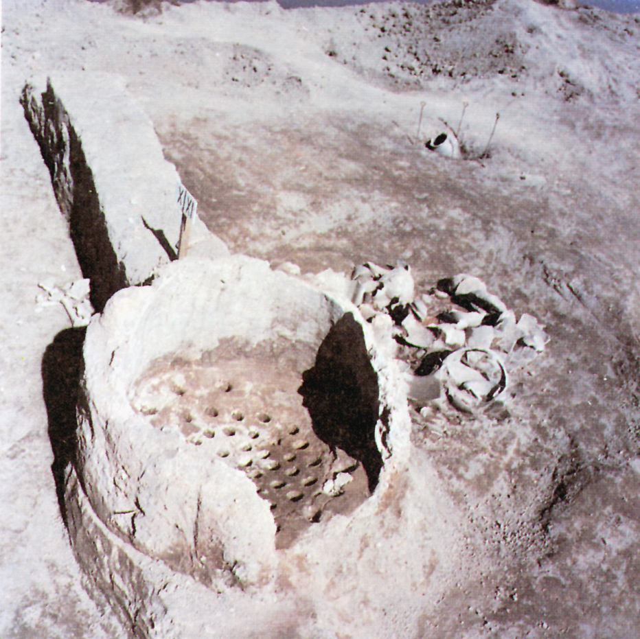 Celtic ceramic kiln found on the archaeological site Gomolava near Hrtkovci (Vojvodina, Serbia), 1st century BC. Srpski (latinica): Keltska grnčarska peć otkrivena na arheološkom lokalitetu Gomolava kod Hrtkovaca, 1. vek p.n.e.